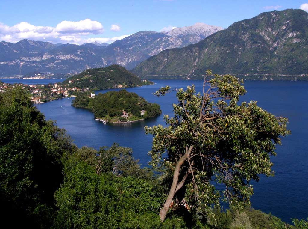 Lake Como landscape (Comacina island)